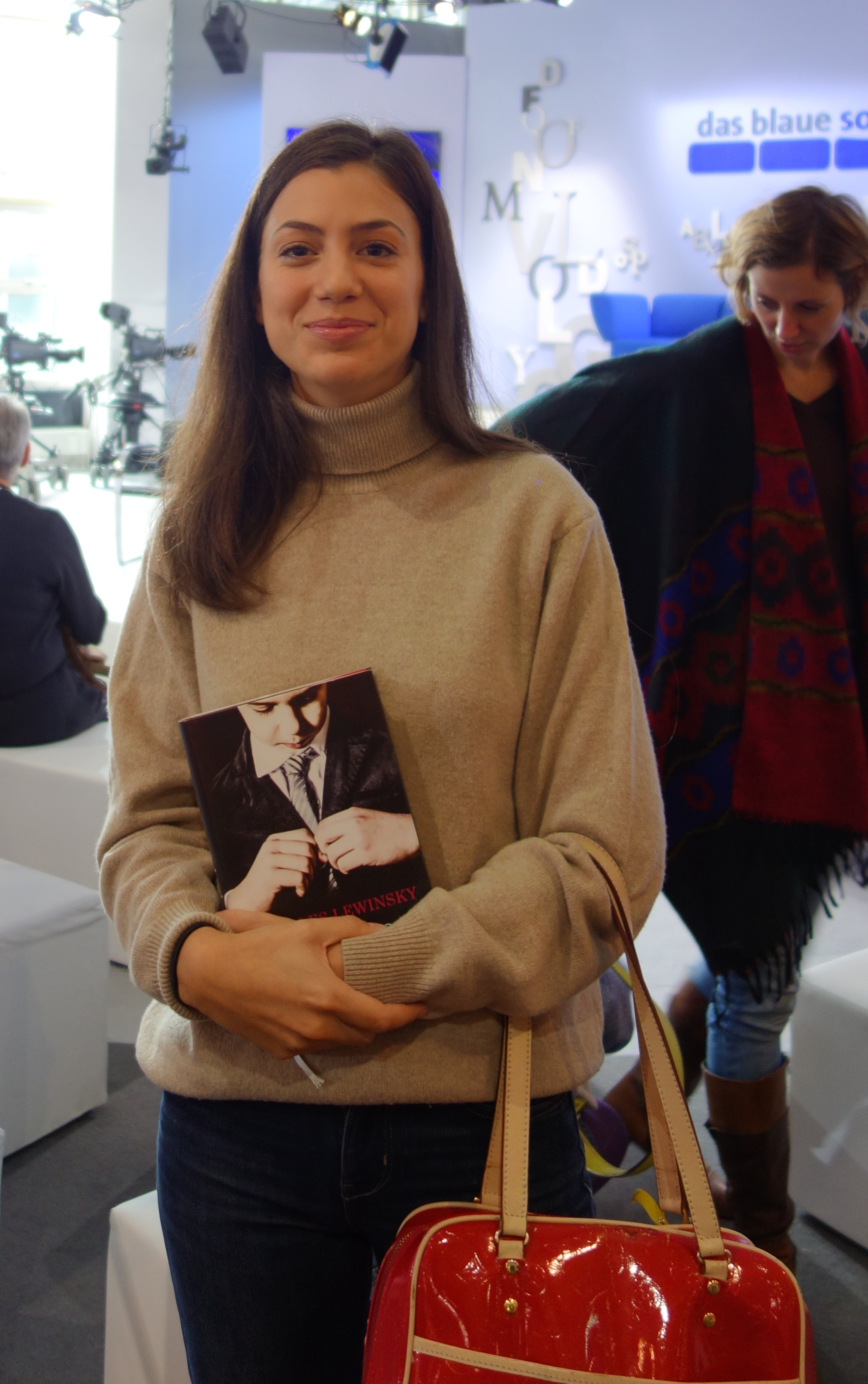 Michelle Steinbeck at the Frankfurt Book Fair 2016 at the presentation of his book.